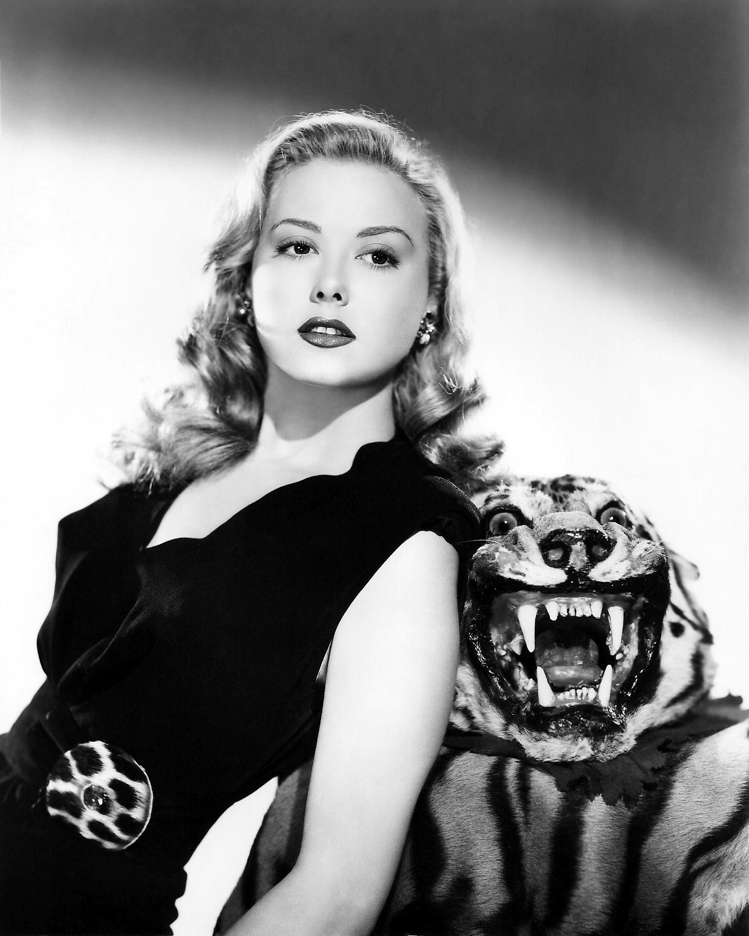 Promotion photo of Adele Mara for the film The Tiger Woman (1945 film). - 1945.